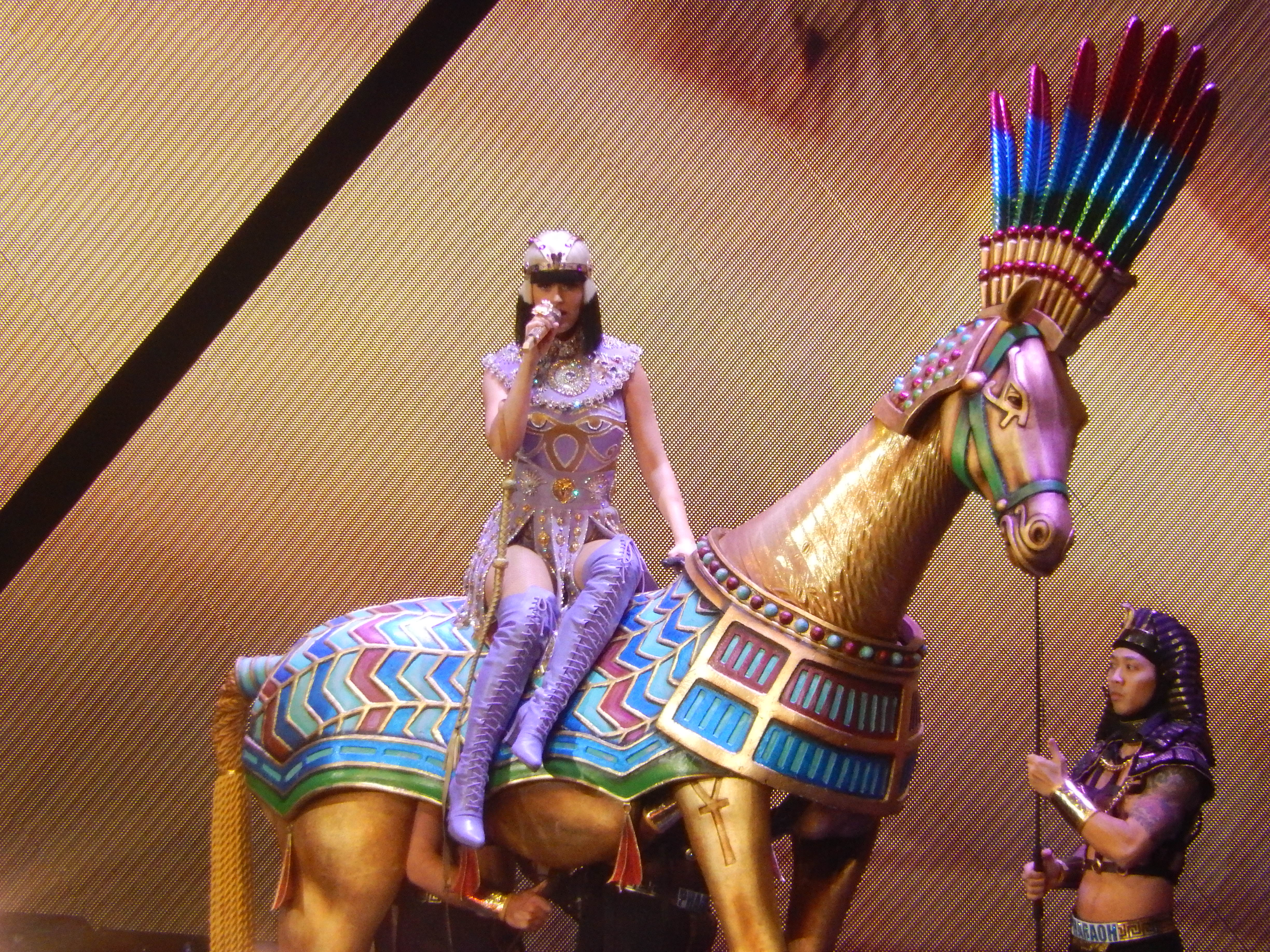 Katy Perry performing at the Prudential Center in Newark, New Jersey on July 11, 2014.